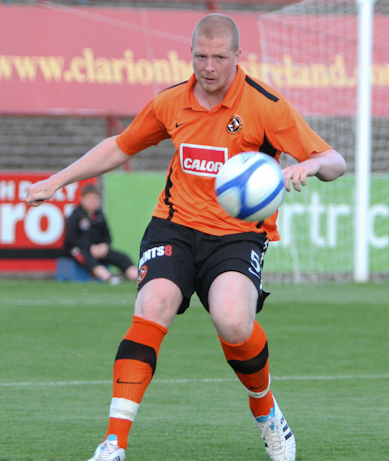 Garry Kenneth from Bohemians V Dundee United (17 of 34)